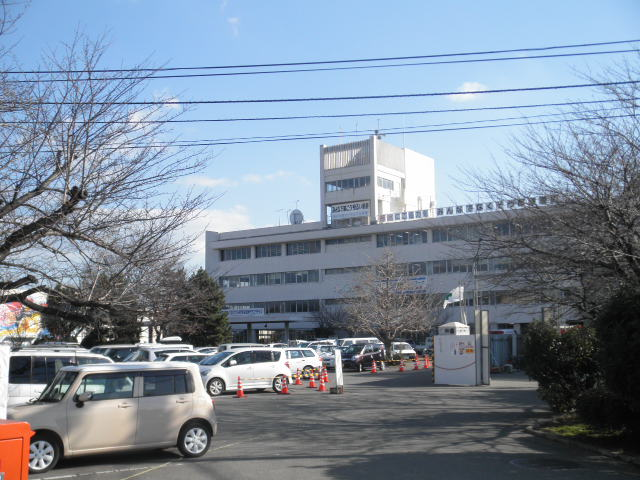 Komatsushima city Hall